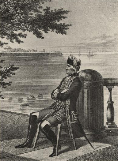 General-food-supply-master 1764-1780.